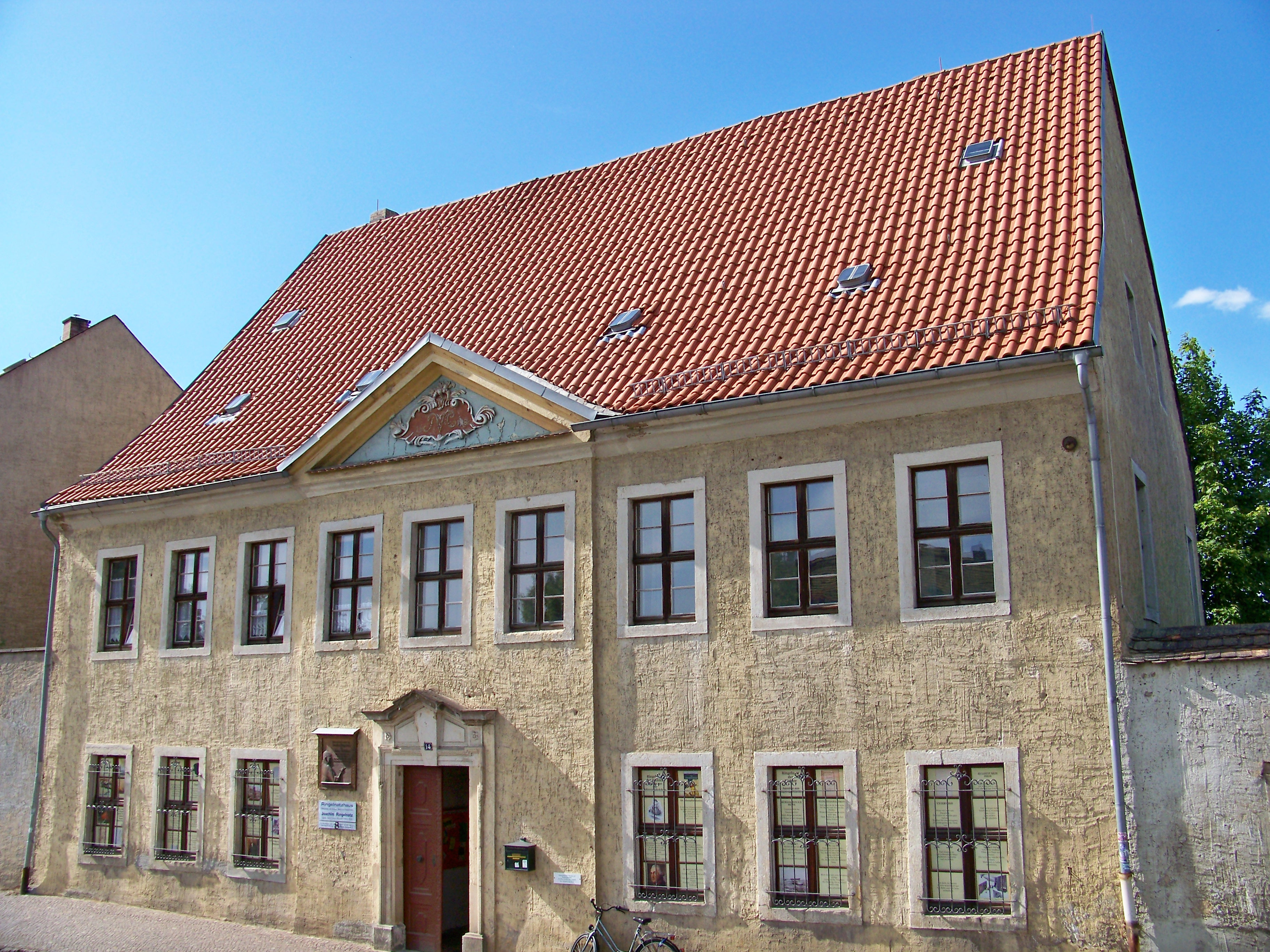 House of birth of Joachim Ringelnatz in Wurzen/Saxony